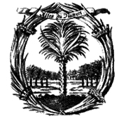 Emblem of the Fruitbearing Society a.k.a. the "Palm Order"